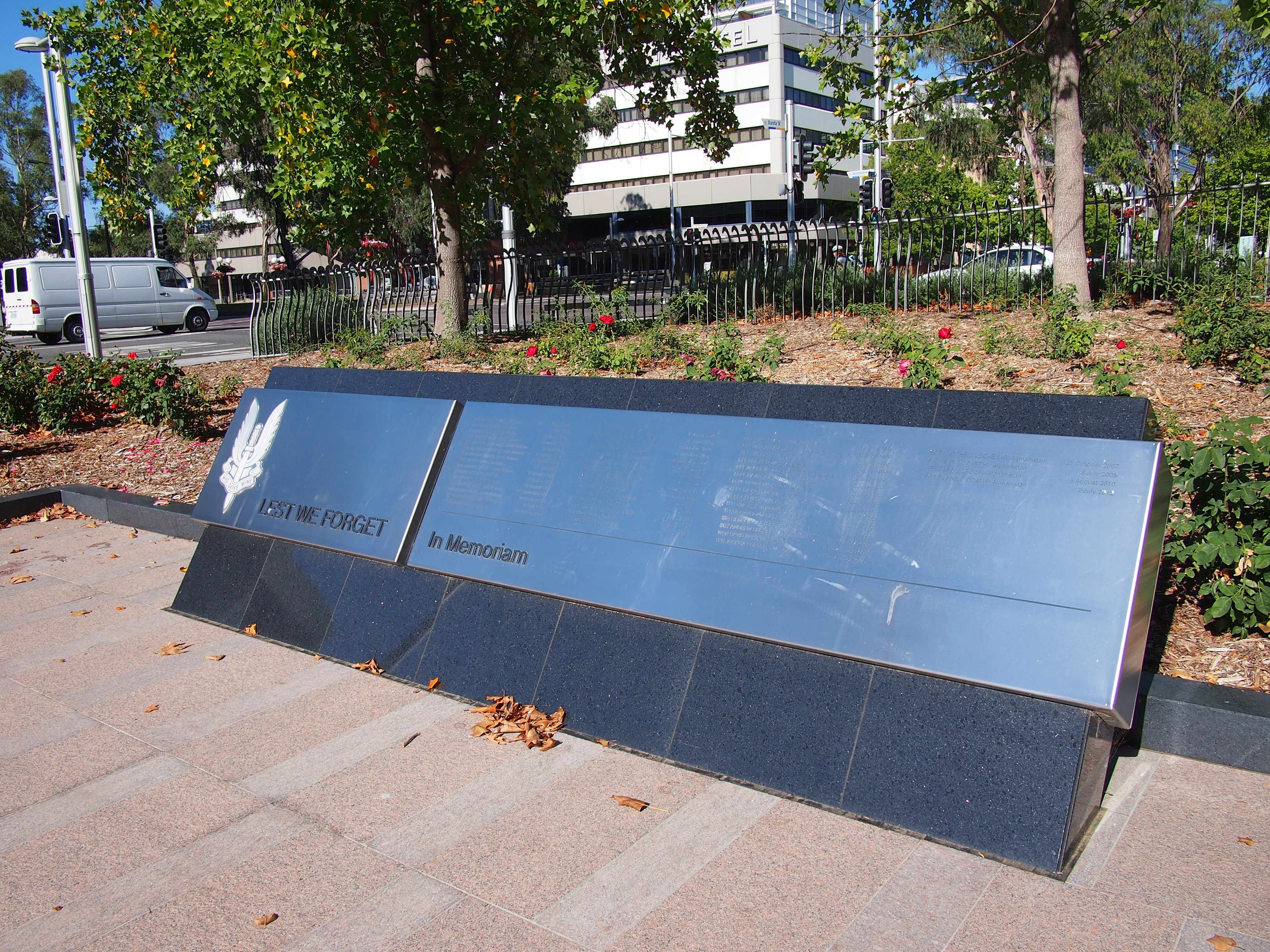 The Special Air Service Regiment Memorial in Veterans Park, Canberra. It lists the names of all members of the SASR who were killed in training accidents or combat deployments.